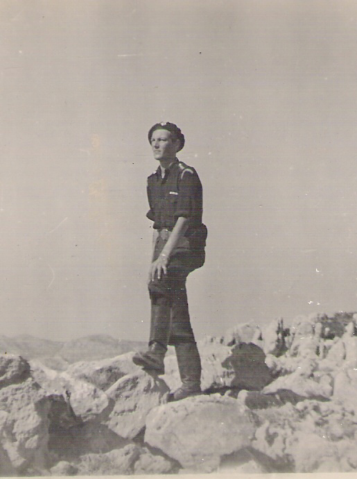 W. Stanley Moss on second operation in Crete 1944